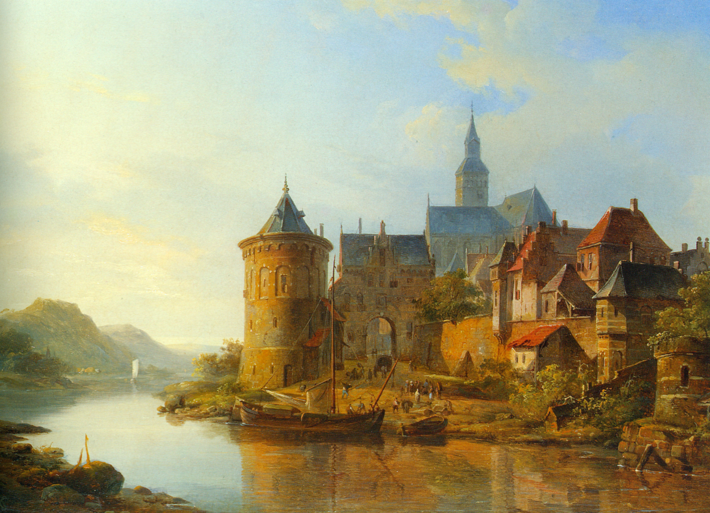 A View of a Town along the Rhine